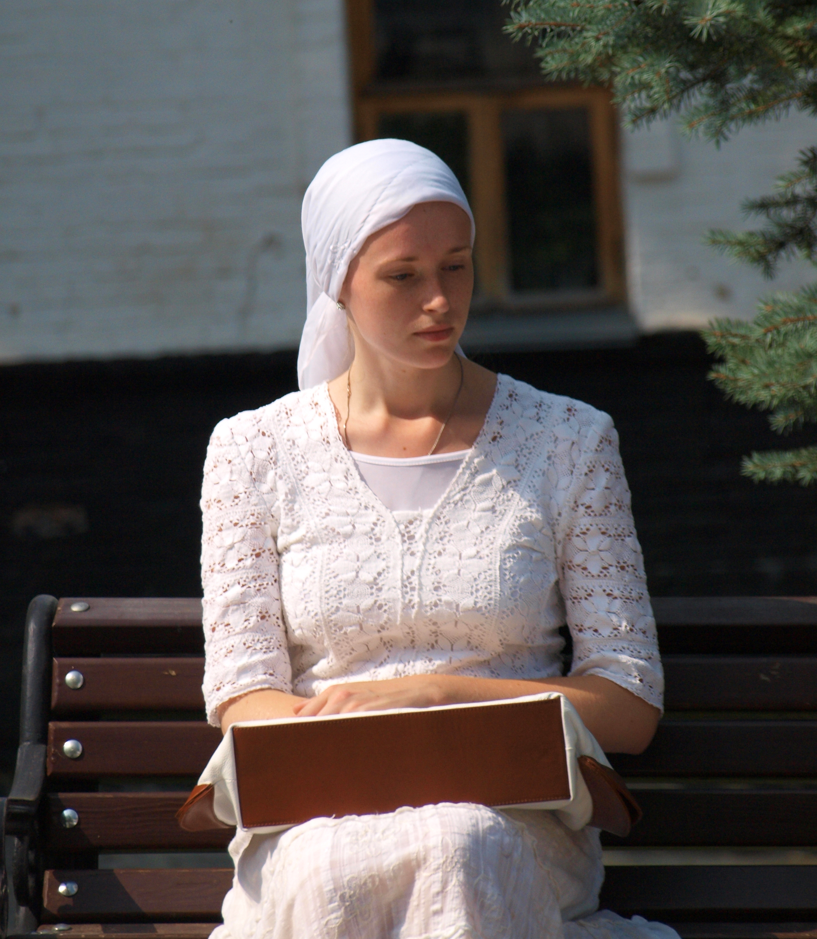 Orthodox pilgrim in Kiev Pechersk Lavra, Ukraine. Upon codec woman believers have to cover their head entering churches and monasteries.